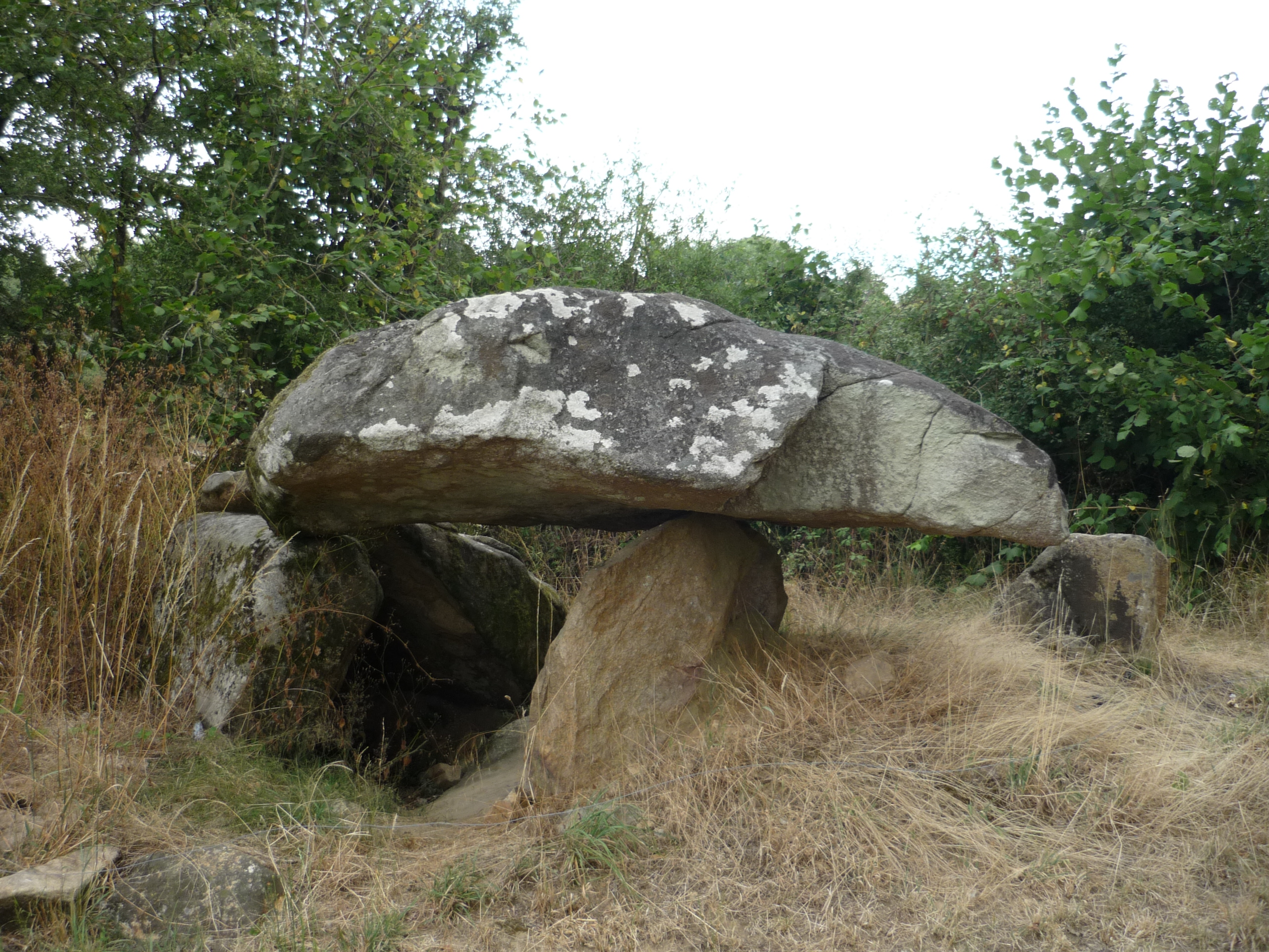 Dolmen de la Voie. Le Pin. Deux-Sèvres. France